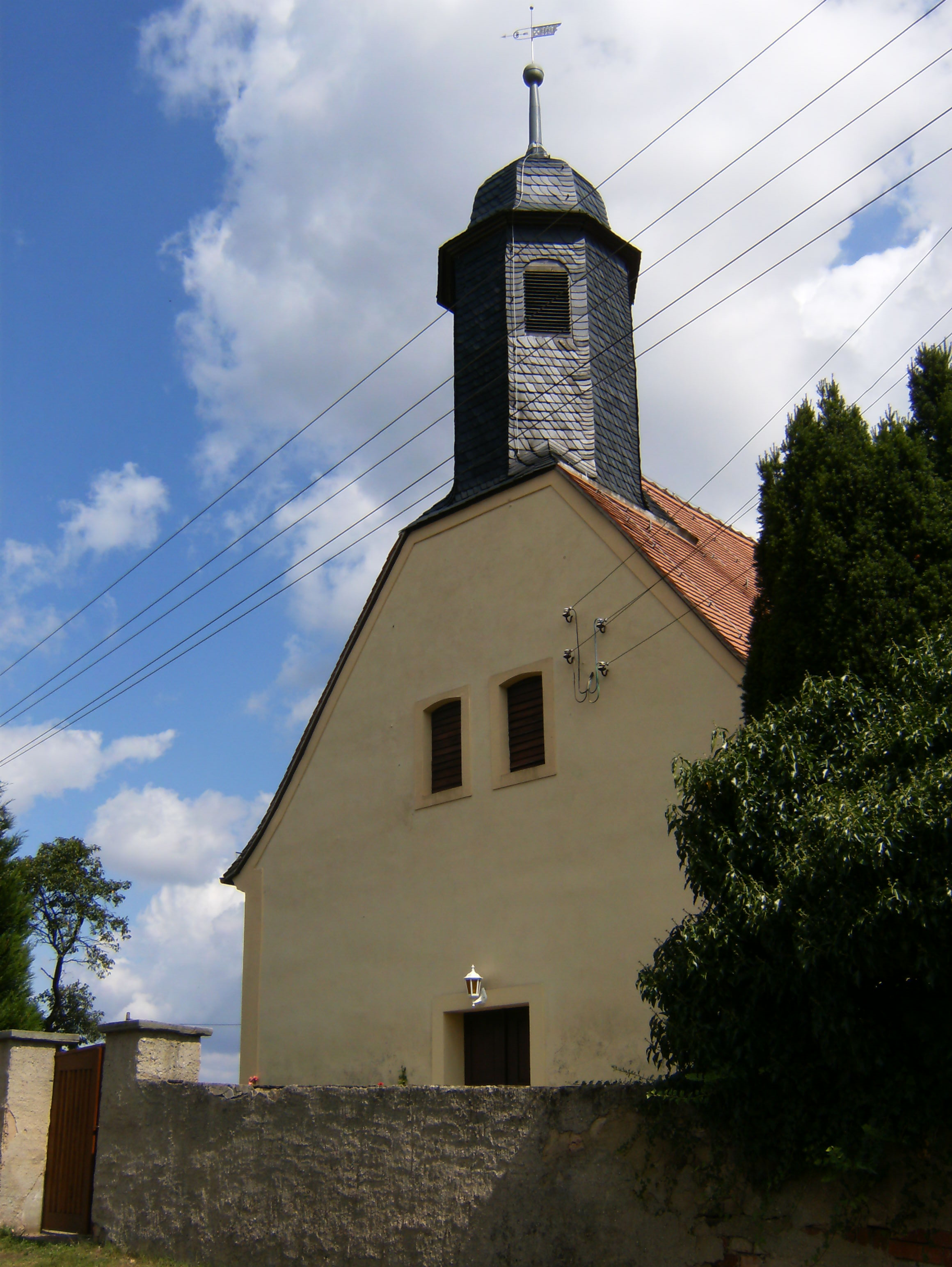 Gera Weißig, village church.